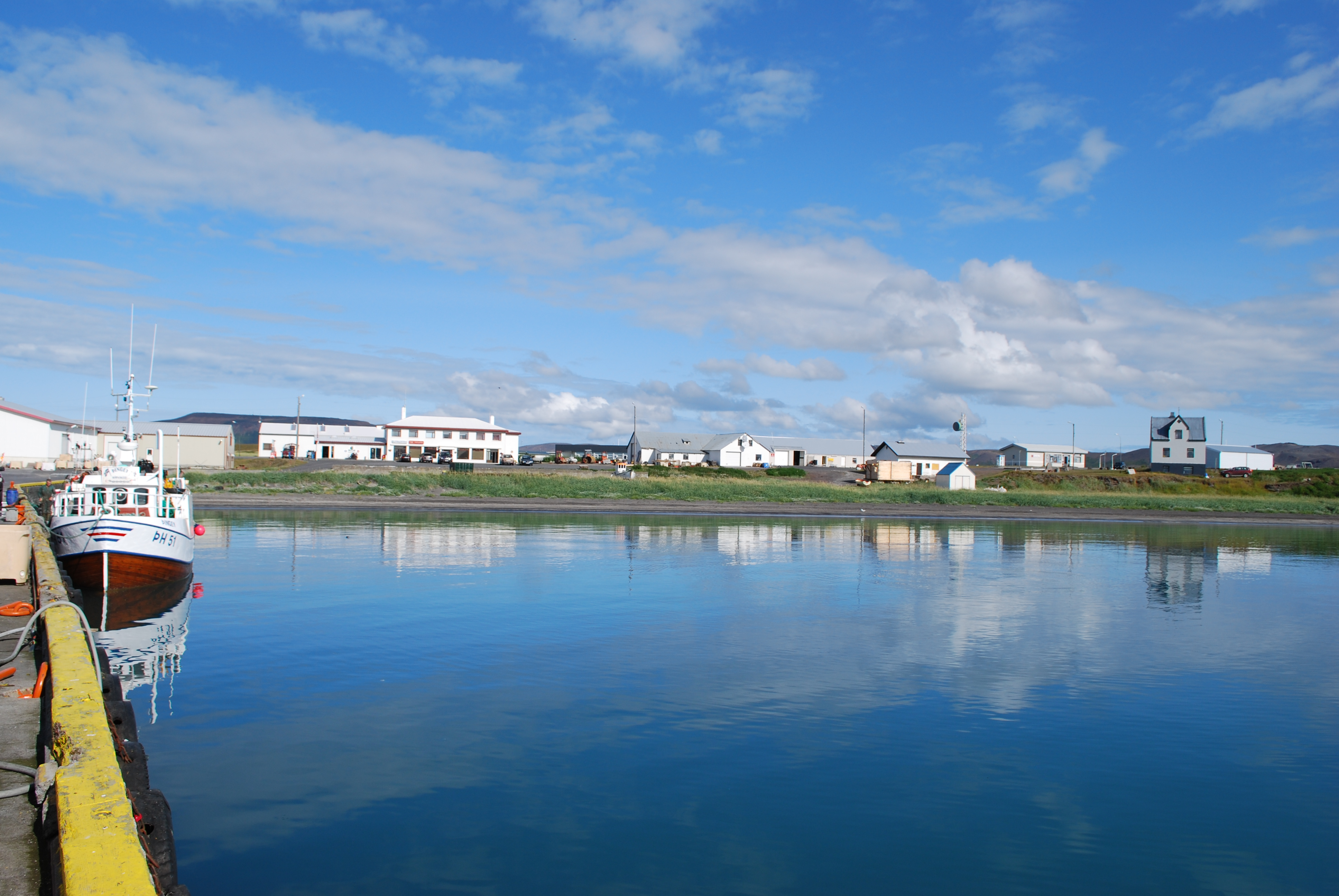 Kópasker village in northeast part of Iceland. Port.